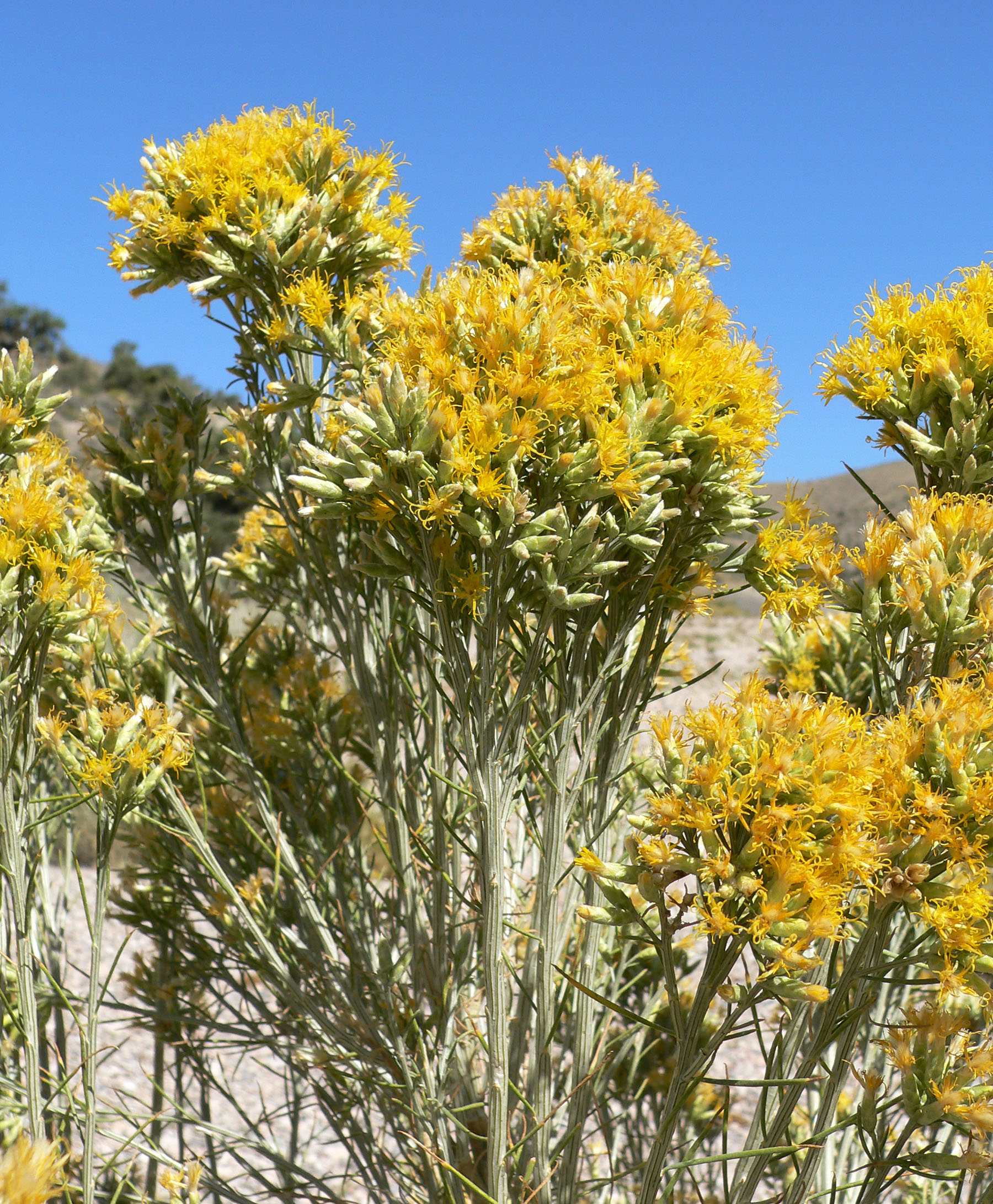 Lepidospartum latisquamum near highway 160 at the Potosi road turnoff, Spring Mountains, southern Nevada (elev. about 1550 m)